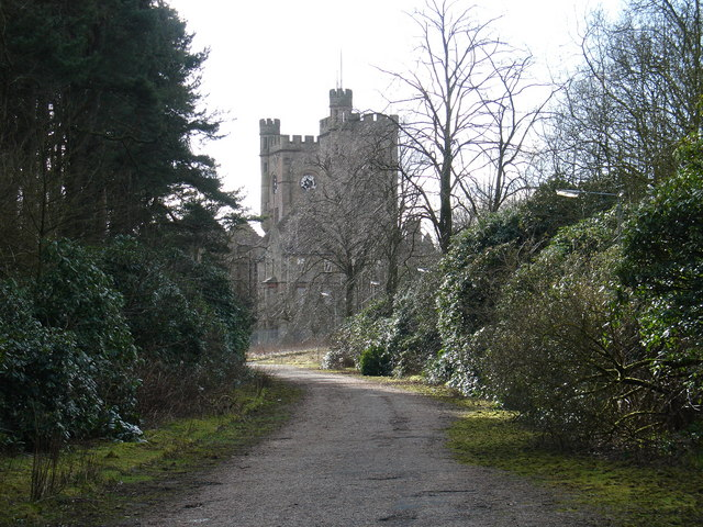 Hartwood Asylum The twin towers of this former hospital building stand imposingly at the end of a long wooded drive (now mostly overgrown).